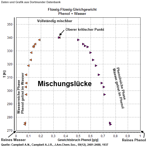 Liquid-liquid equilibrium of the Phenol/Water mixture. German descriptions.